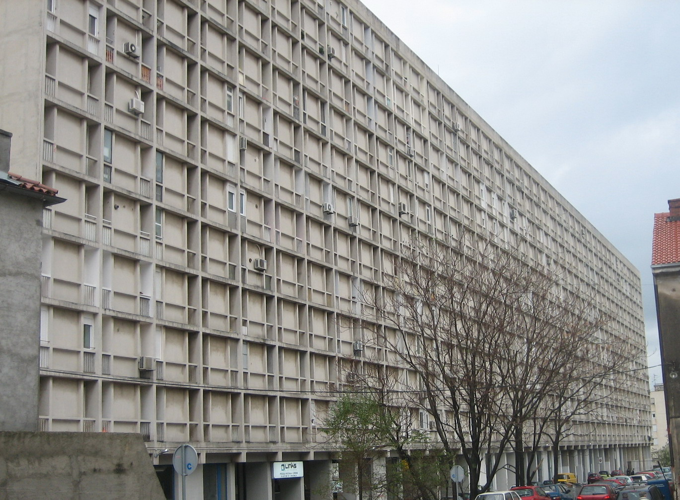 Kineski zid building in Split